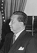 President of the Philippines, Elpidio Quirino